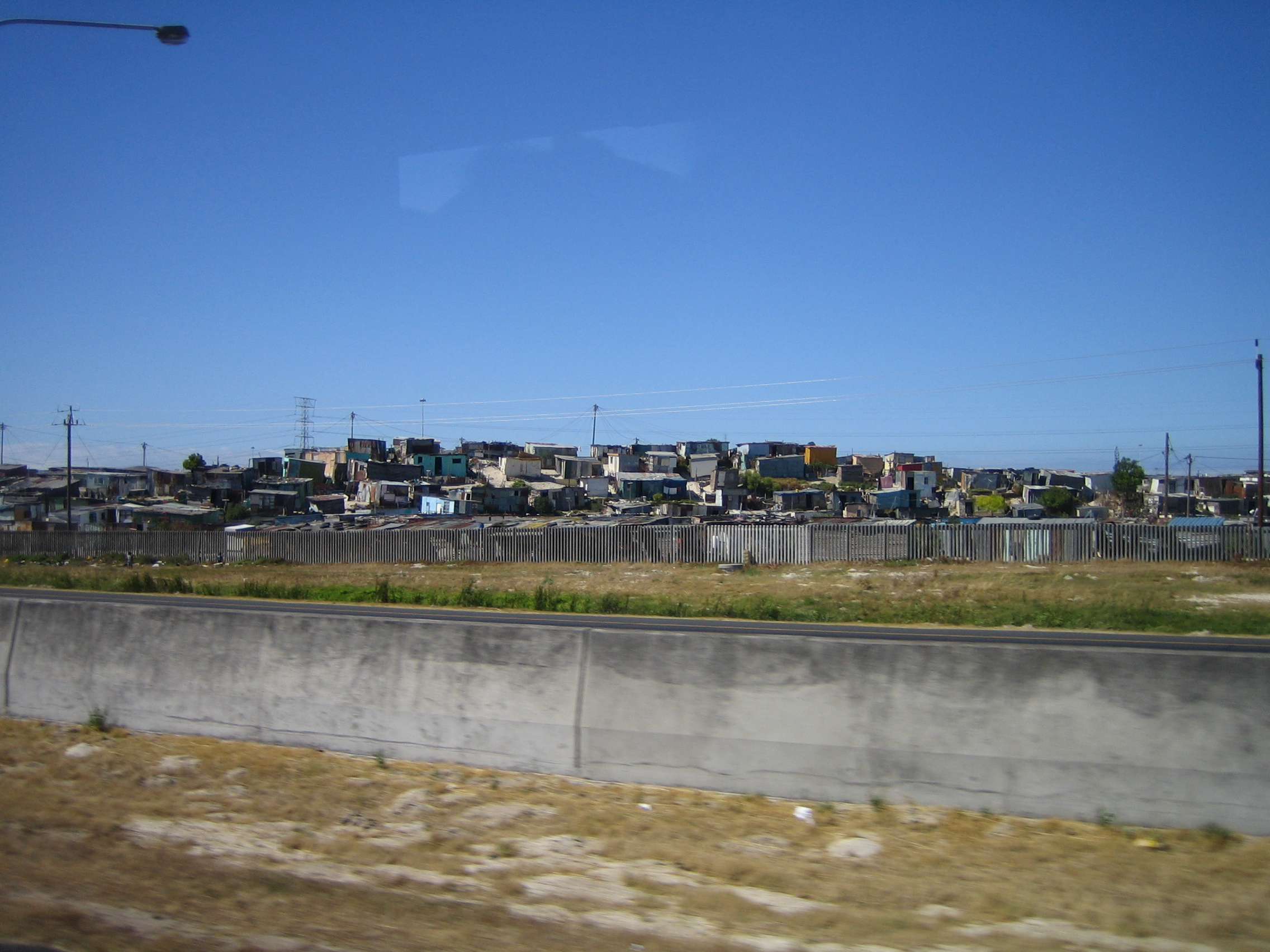 Shanty town on Cape Flats near Cape Town, South Africa